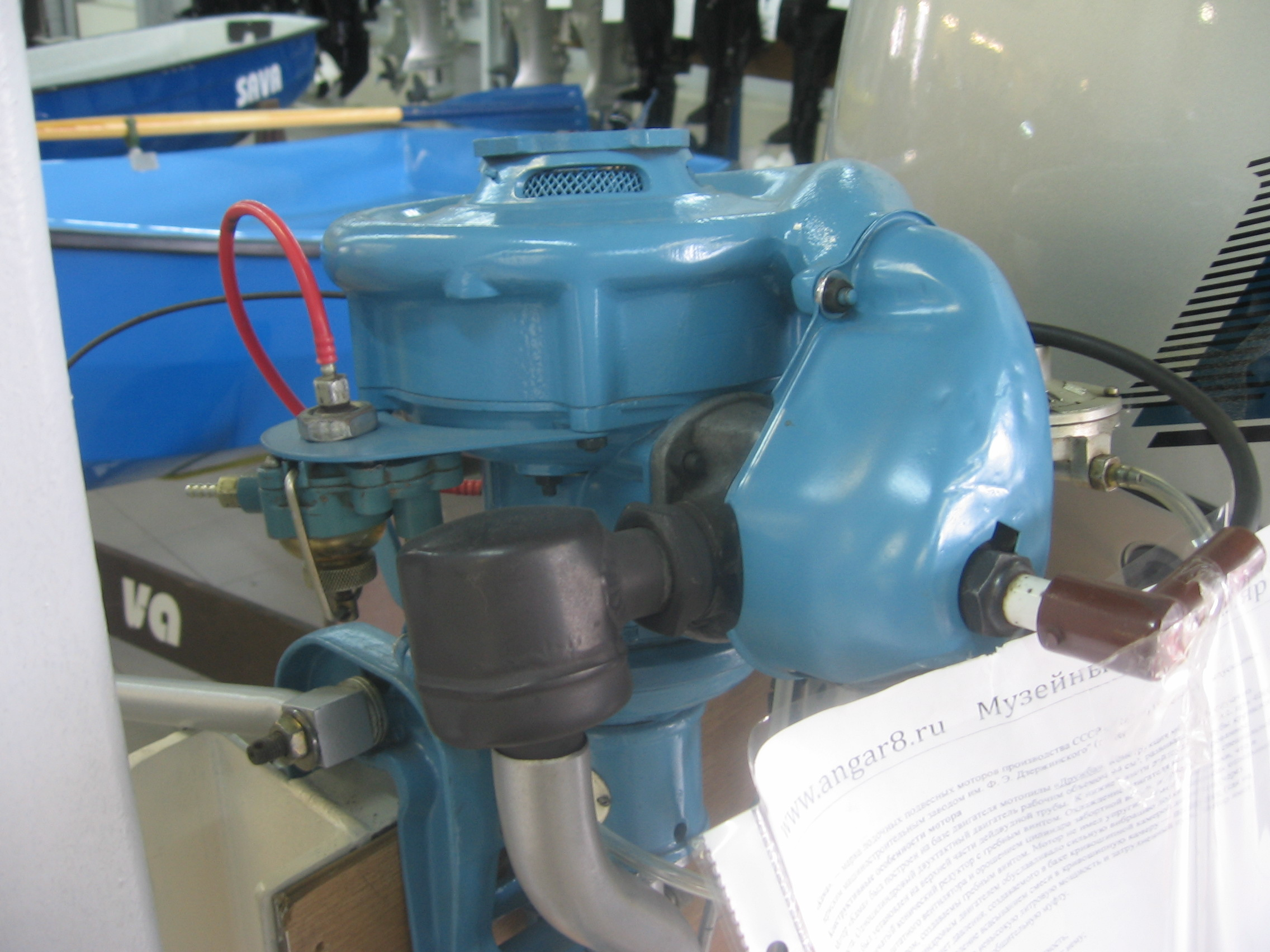 "Kama" (outboard motor). view to the engine